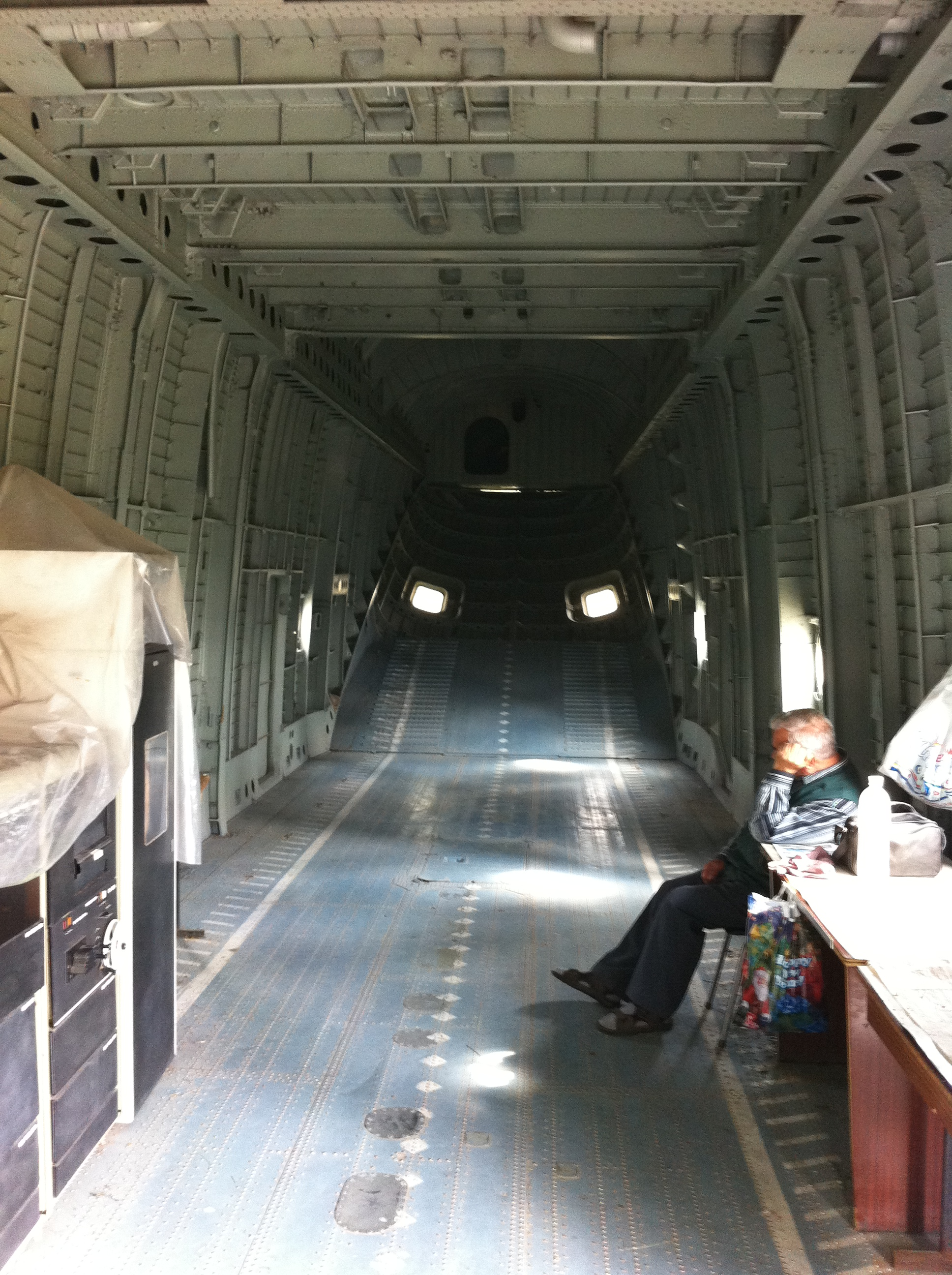 at the Aviation museum of Zhulyany Airport, Kiev, Ukraine